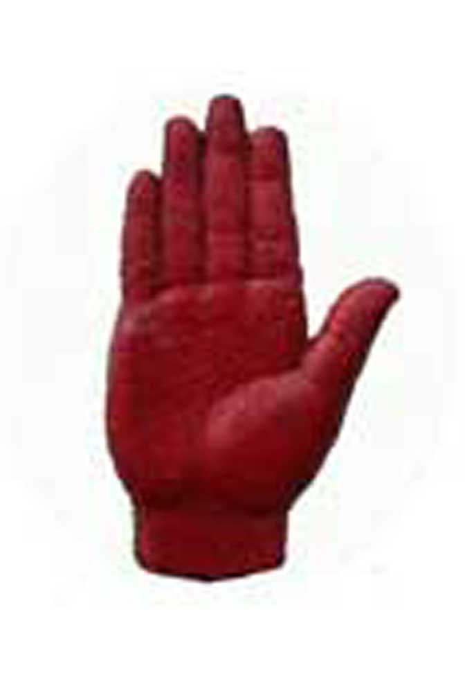 Red Hand, as used by National Graves Association, Belfast, to denote graves which are under their care